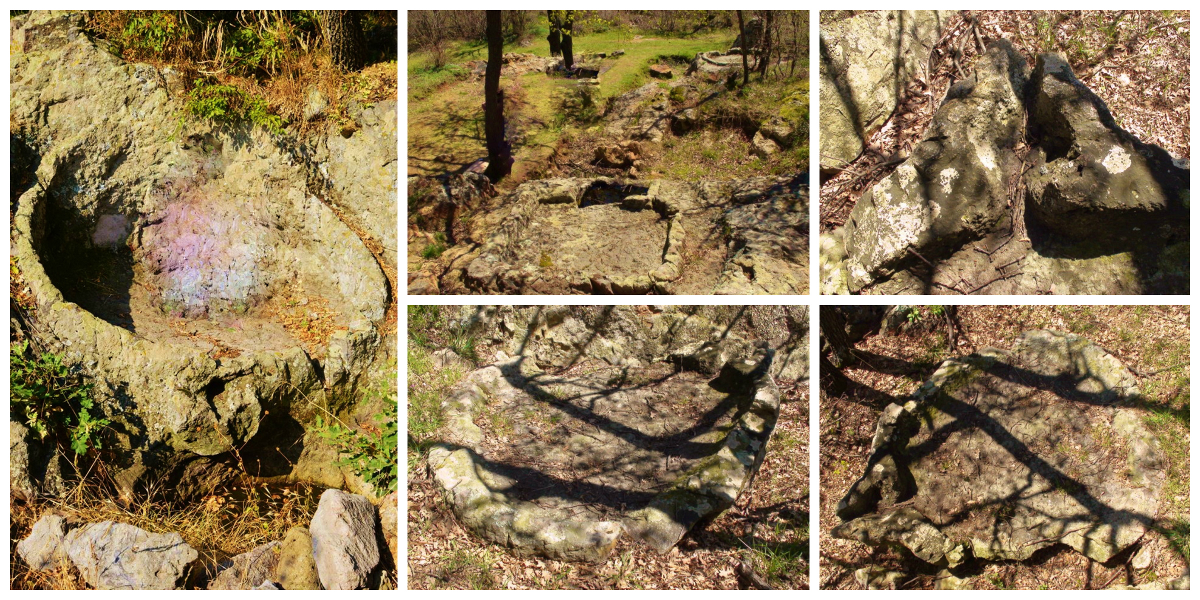 Sharapan_stones_Pozharisteto_Sanctuary_Bryastovo_Haskovo_Bulgaria